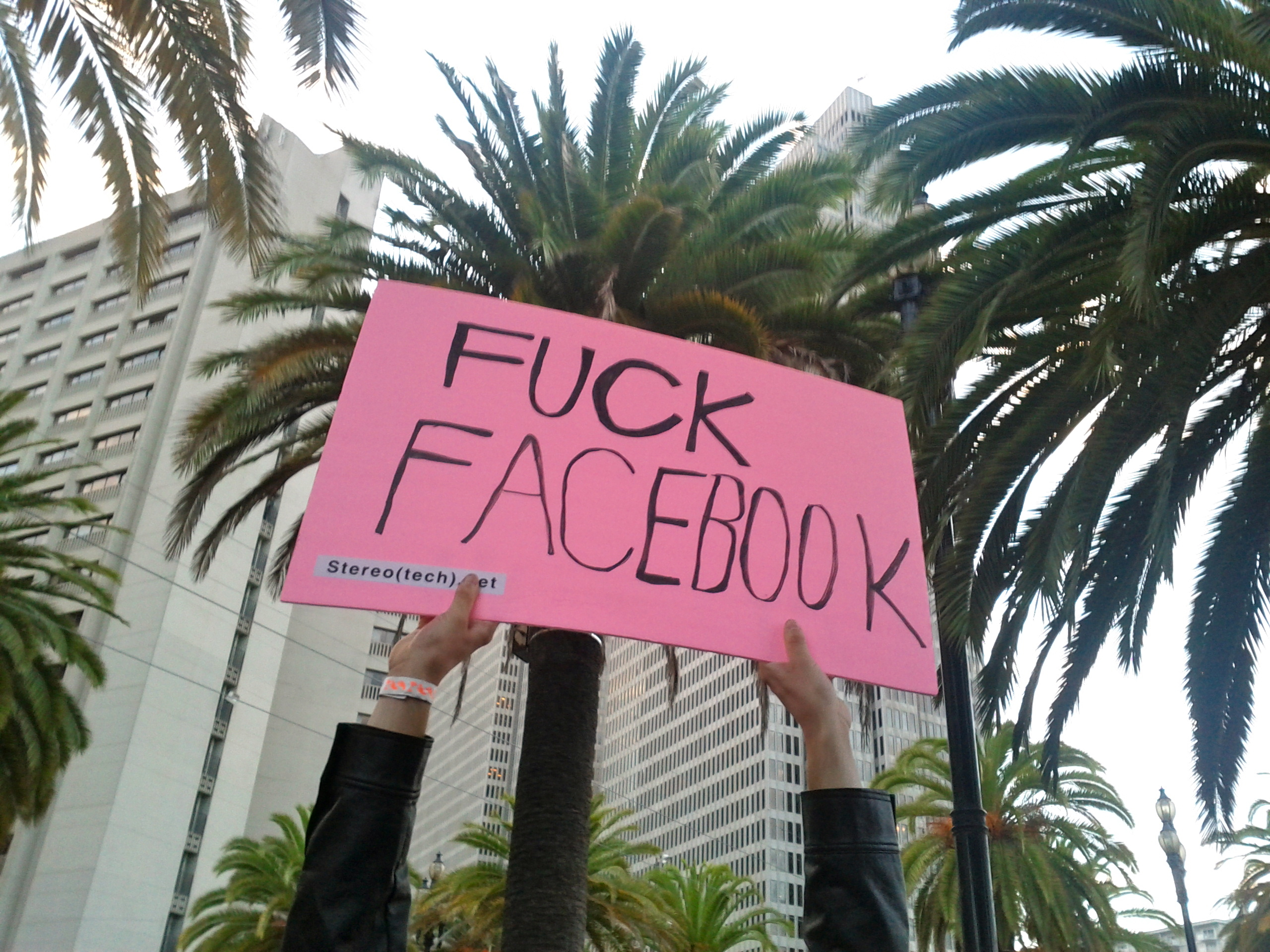 Someone holding up a sign at Occupy San Francisco reading 'FUCK FACEBOOK'.